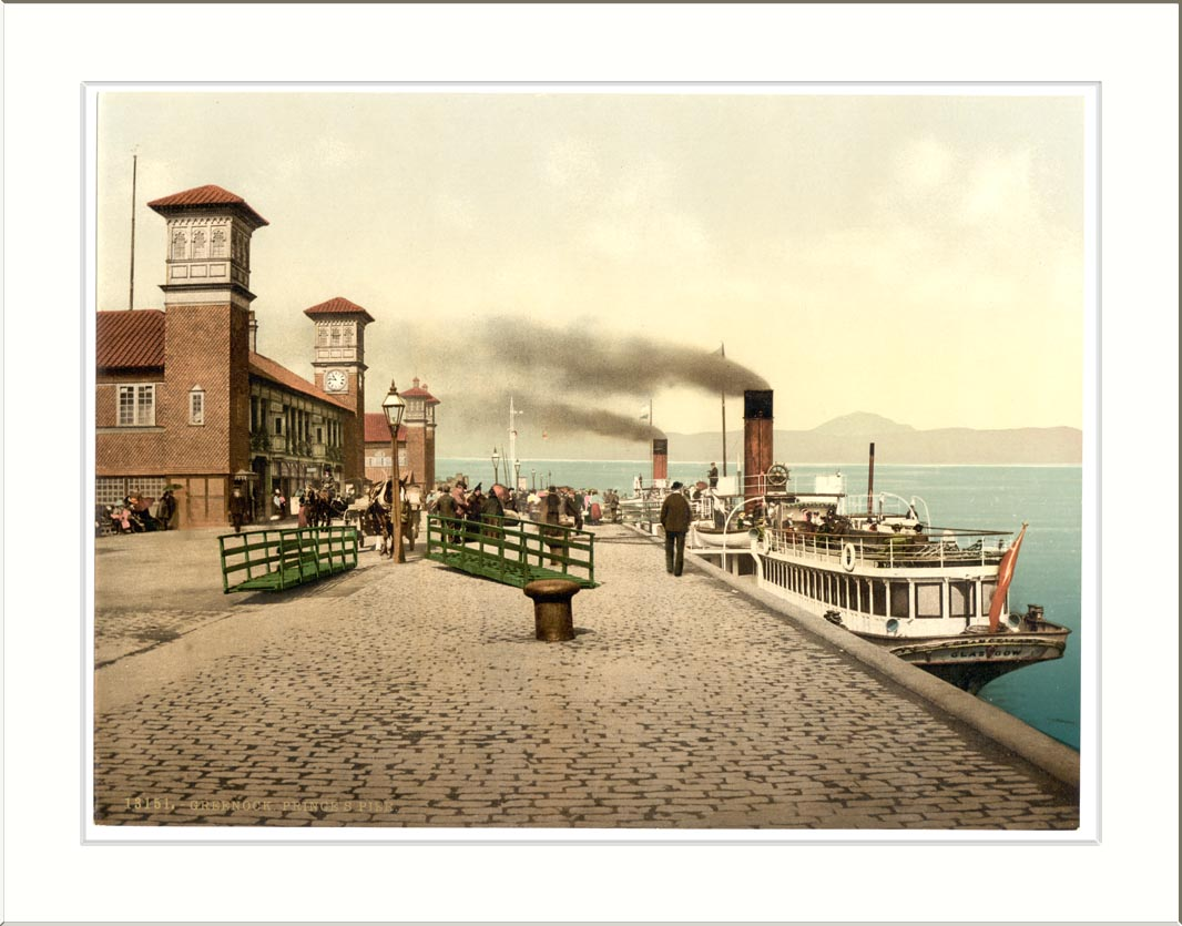 Princes Pier Greenock Scotland